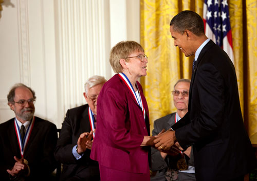 President Barack Obama presents the National Medal of Science to Dr. JoAnne Stubbe of the Massachusetts Institute of Technology during a ceremony in the East Room of the White House Wednesday, Oct. 7, 2009. Official White House Photo by Lawrence Jackson